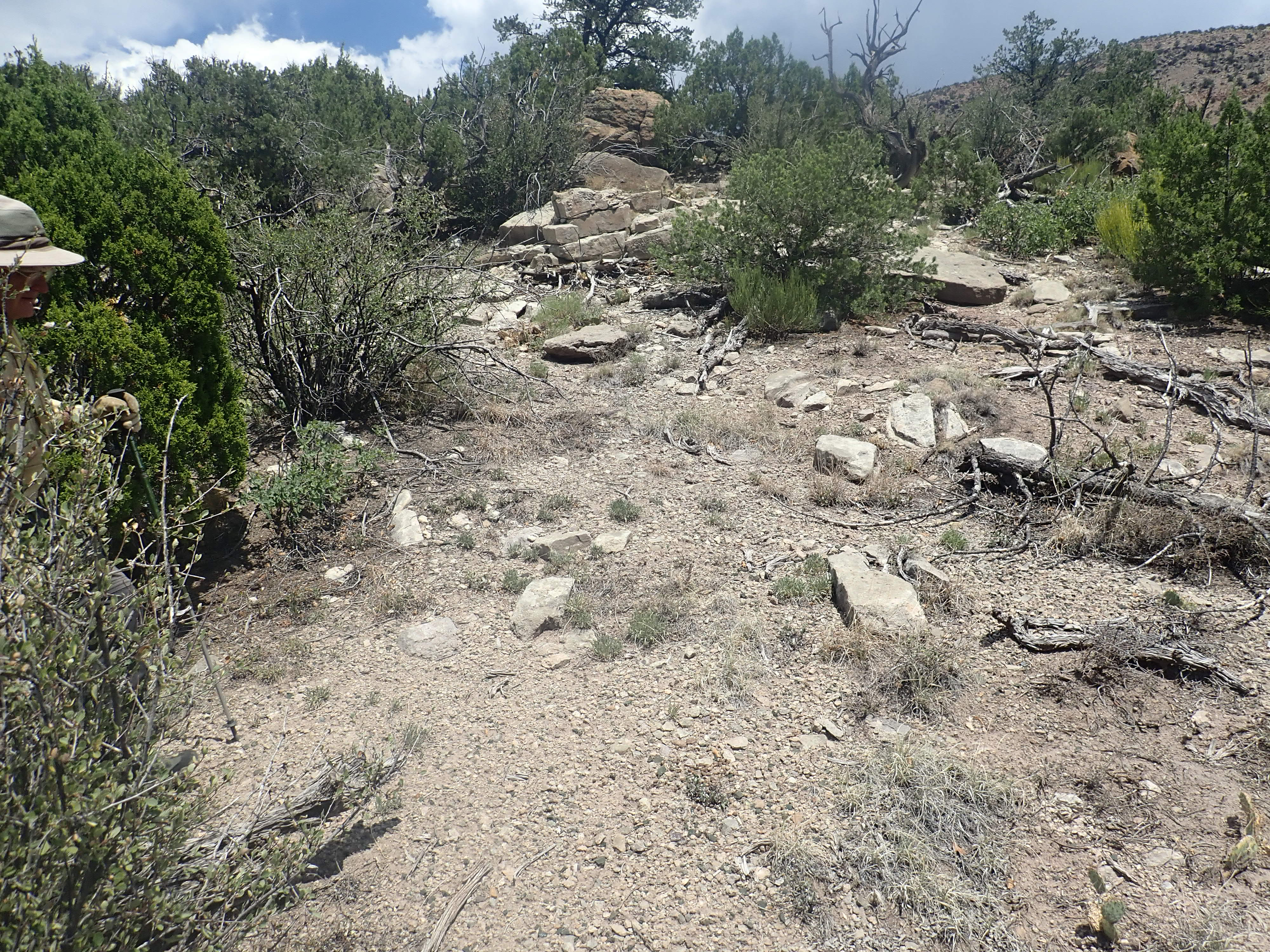 This image shows exposures of the Osha Canyon Formation near its type section at Guadelupe Box, New Mexico, USA. This is an earliest Pennsylvanian (Bashkirian) formation that is mostly thinly bedded fossiliferous limestone and shale. It is exposed only in the southwestern Jemez Mountains and Sierra Nacimiento.